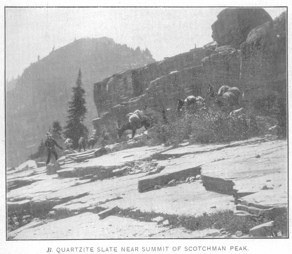 USGS Idaho Montana 1900 Scotchman Peak Packing. Survey Monuments. 1898 Photo.